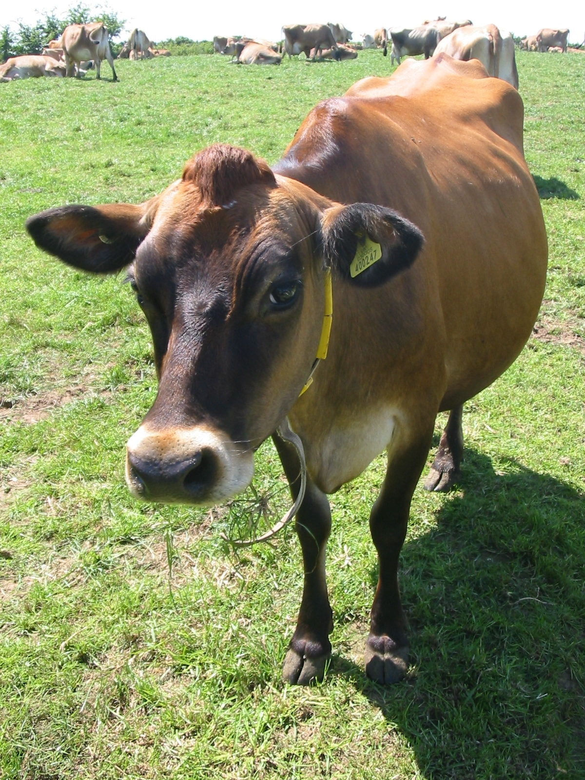 Jersey cattle on north coast of Jersey Photo taken by Man vyi with Canon PowerShot A40 on 12/6/2005